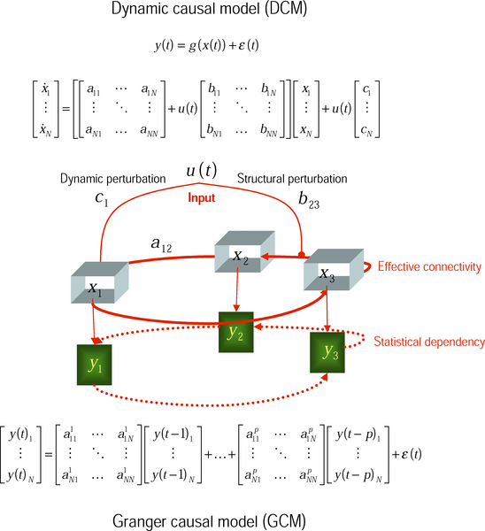 This image is Figure 1 of Causal Modelling and Brain Connectivity in Functional Magnetic Resonance Imaging by Karl Friston. Figure 1. Models of Effective Connectivity This schematic shows the underlying equations on which dynamic (DCM) and Granger (GCM) causal models are based. In DCM for fMRI, bilinear differential equations describe the changes in neuronal activity x(t)i in terms of linearly separable components that reflect the influence of other regional state variables. Known deterministic inputs u(t) elicit a change in neuronal states directly though ci or increase the coupling parameters aij in proportion to the bilinear coupling parameters bij. The neuronal states enter a region-specific haemodynamic model to produce the outputs y(t)i. GCM tries to model the ensuing dependencies among the outputs with a time-lagged linear regression of the current response on previous responses (up to an order denoted by p). In both models, the data contain observation noise ε(t) that is added to regional observations. The DCM is effectively a state-space model formulated in continuous time; whereas the GCM is a vector autoregression model in discrete time. See Figure 2 for a fuller explanation of the haemodynamic part of the model.